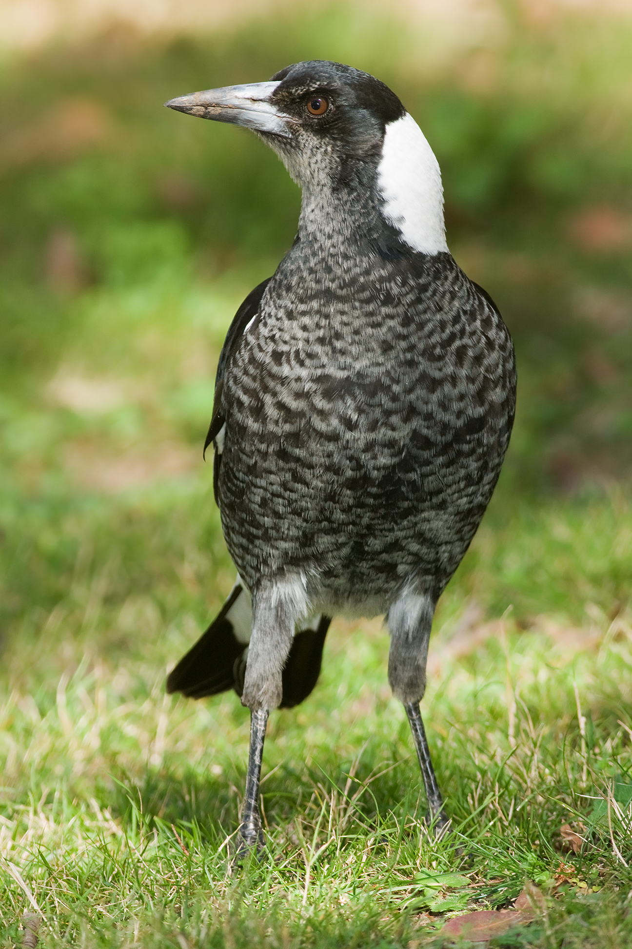 Australian Magpie (Cracticus tibicen tibicen) juvenile, Australian National Botanic Gardens, Canberra, Australia